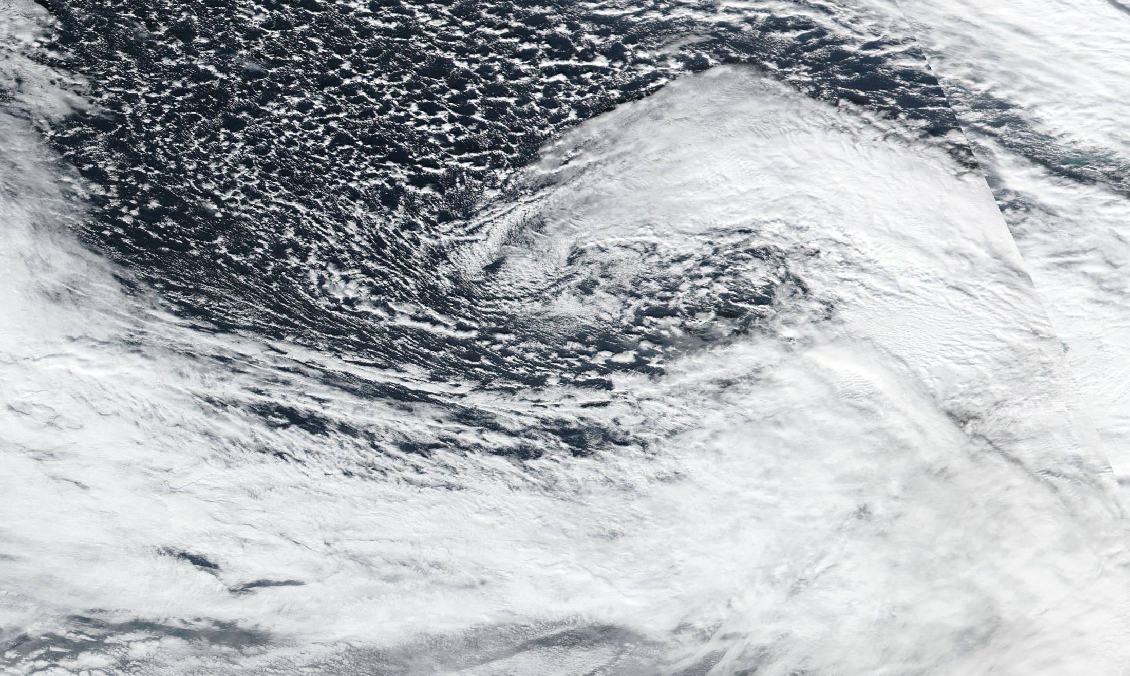 Storm Amelie, of the 2019-2020 European windstorm season, above the Atlantic Ocean.